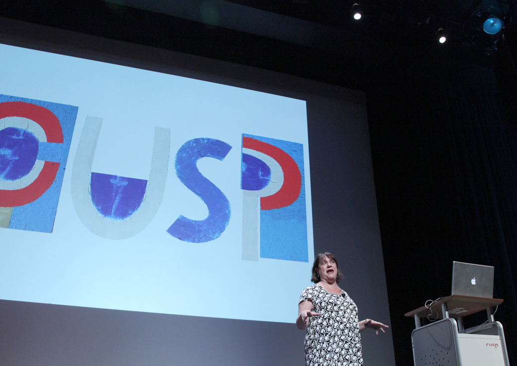 Laurie Rosenwald presenting at the Cusp Conference, Chicago IL September 2011